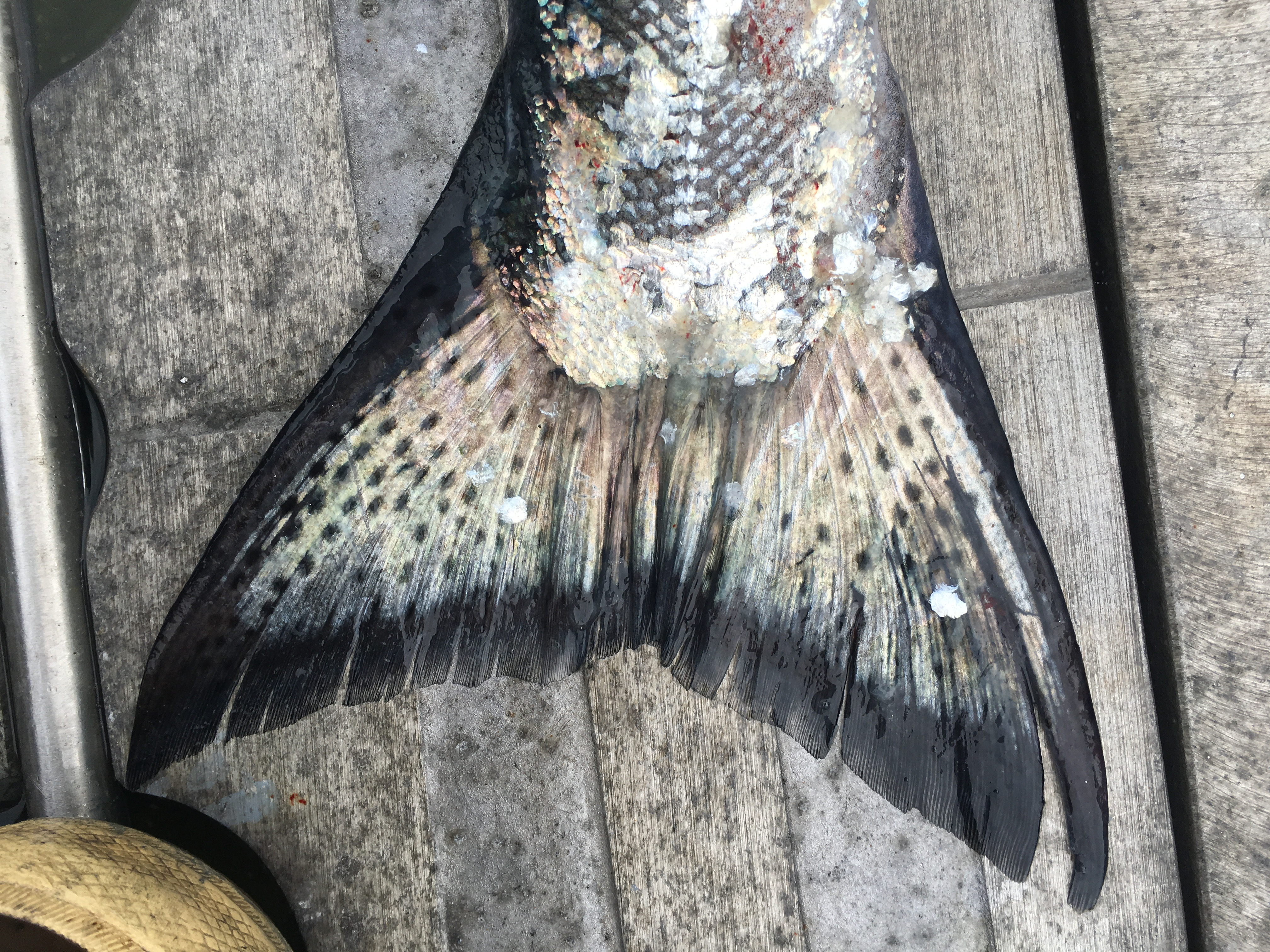 Tail of a king salmon (Oncorhynchus tshawytscha) showing the distinctive combination of silver and black spots that characterizes the species. Taken in Kodiak, Alaska. Photo by Nick Longrich.